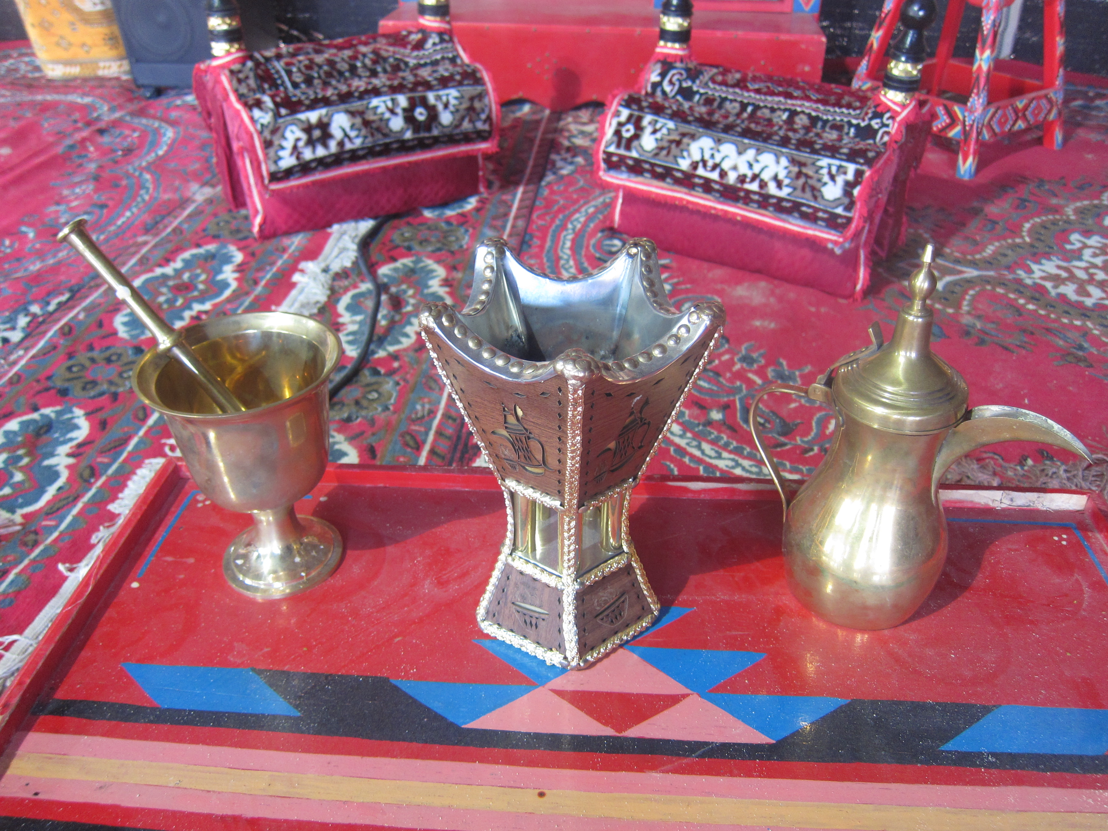 Saudi Culture - സൗദി സംസ്കാരം